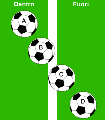 A diagram to demonstrate when the ball goes out of play in association football. Ball is in play in positions A, B, C and out of play in position D.